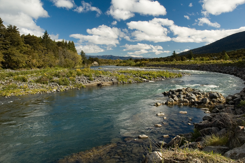 Author Source.